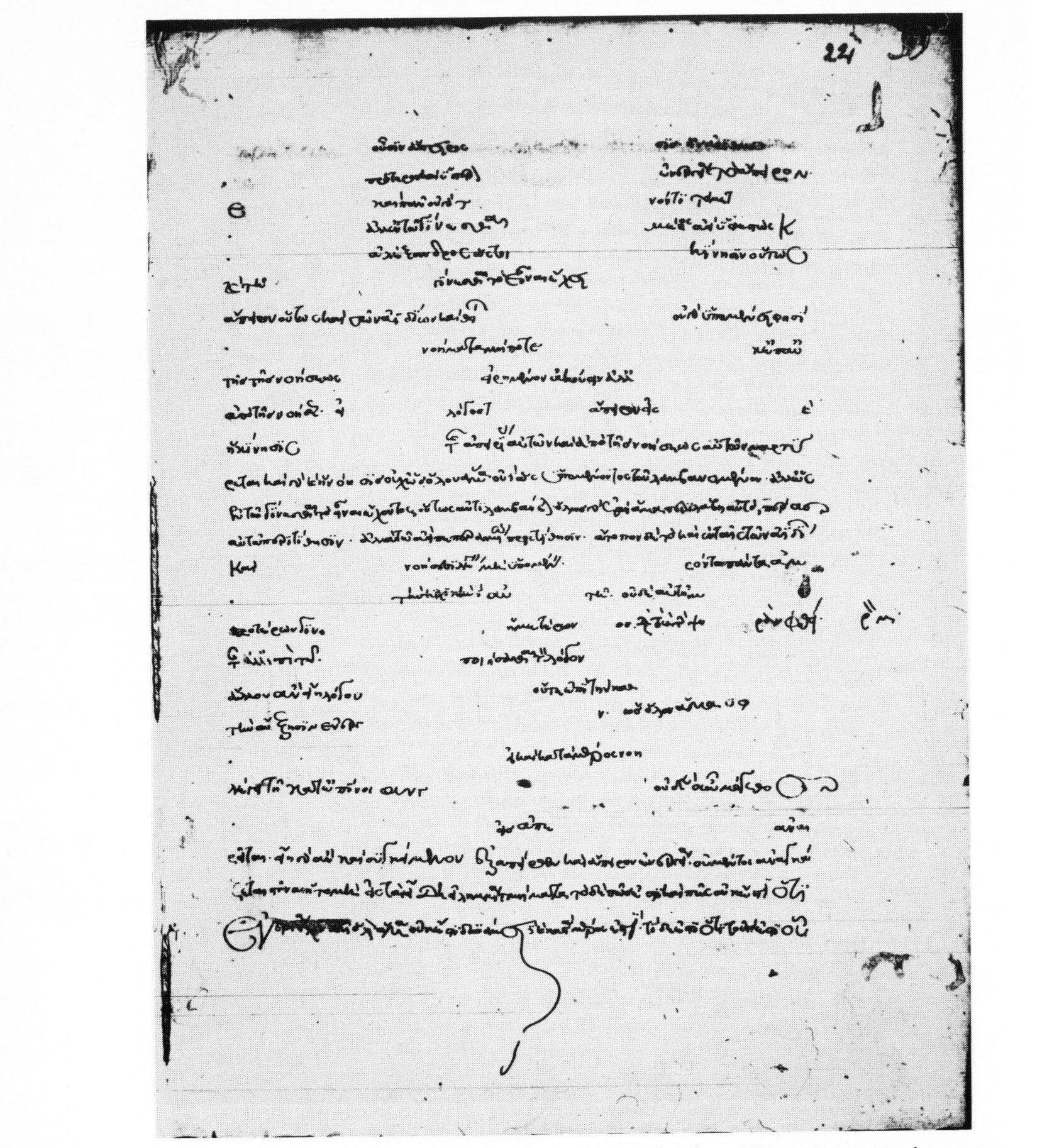 Simplicius of Cilicia, Commentary on Aristotle's Physics III 518,5–30 in State Historical Museum Moscow, codex 3649, fol. 221.